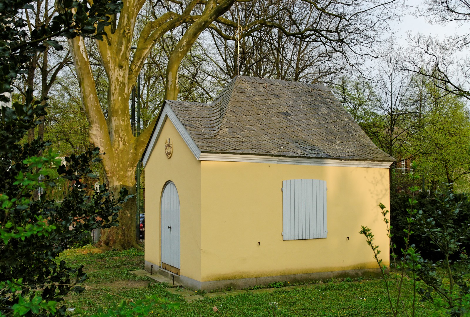 Blood Chapel in Düsseldorf-Gerresheim, Germany